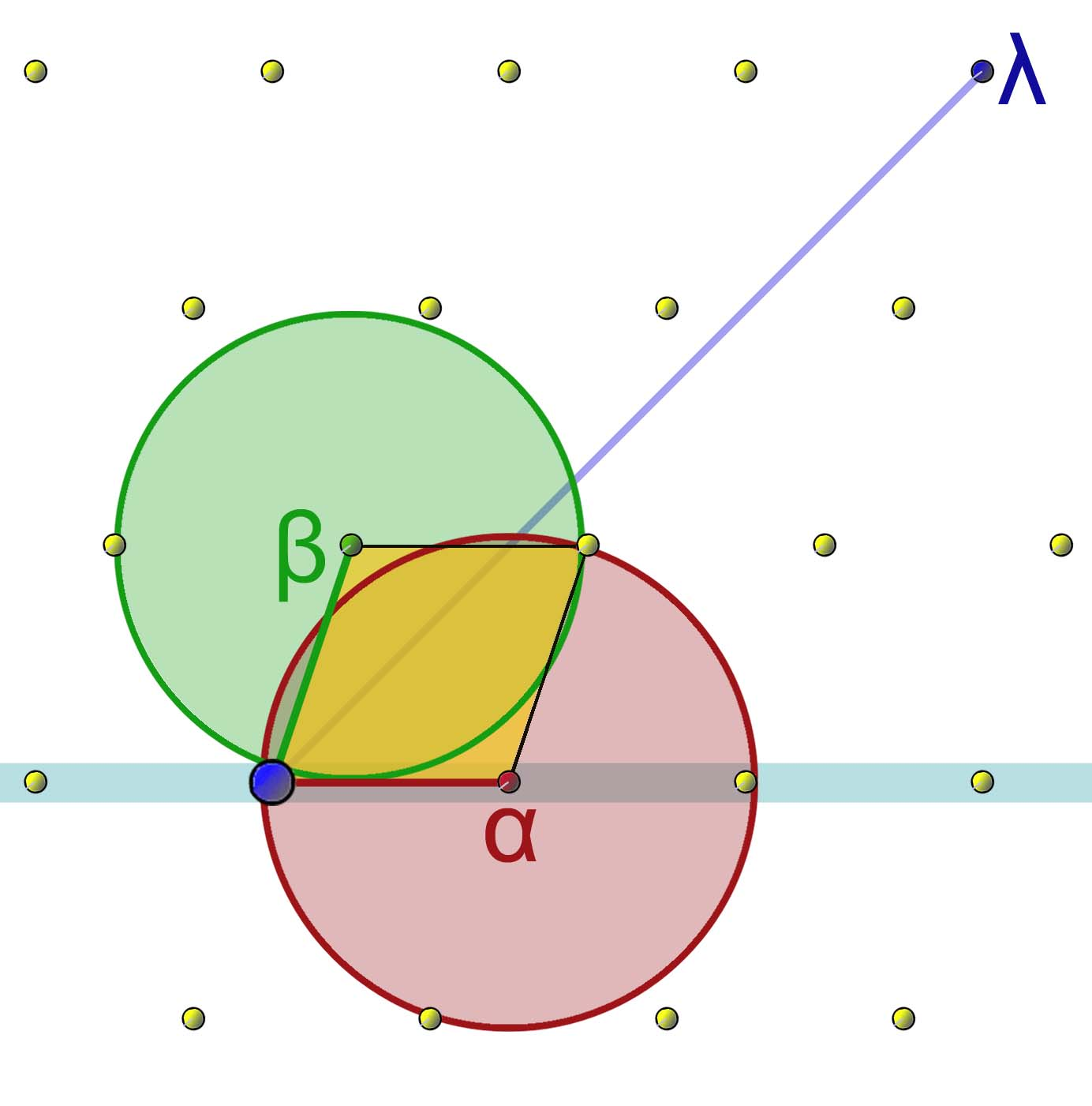 Existence of a base, in a lattice (group) (dimension 2 only).